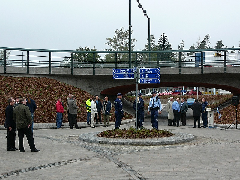 Opening ceremony of the traffic circle of Suomenoja on Sept, 19th 2006.